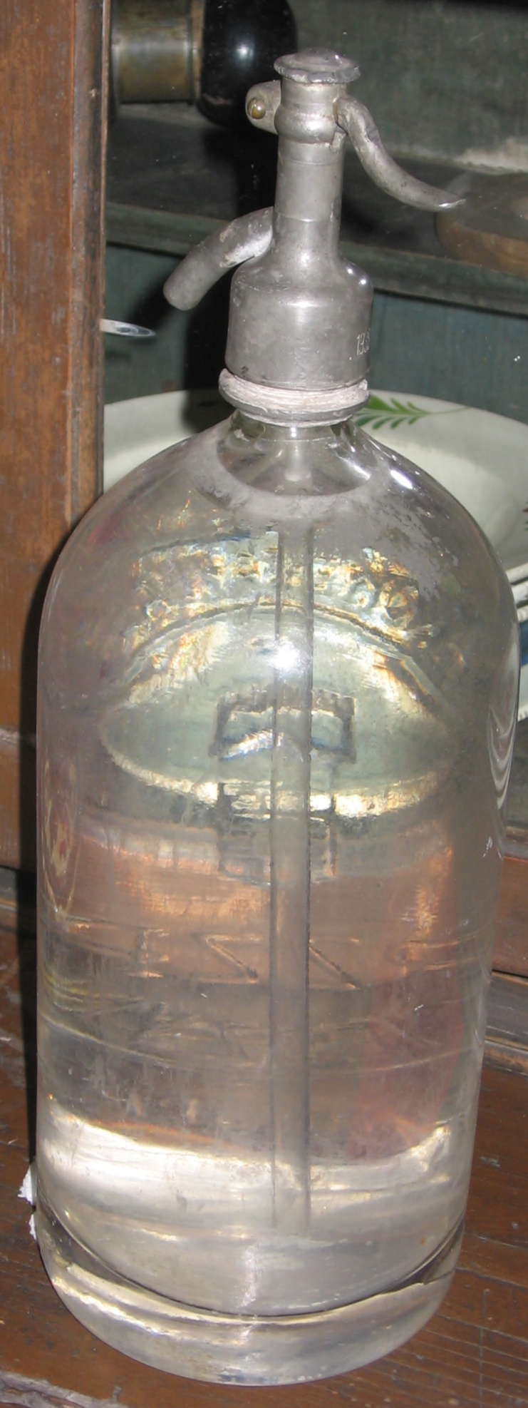 Soda syphon